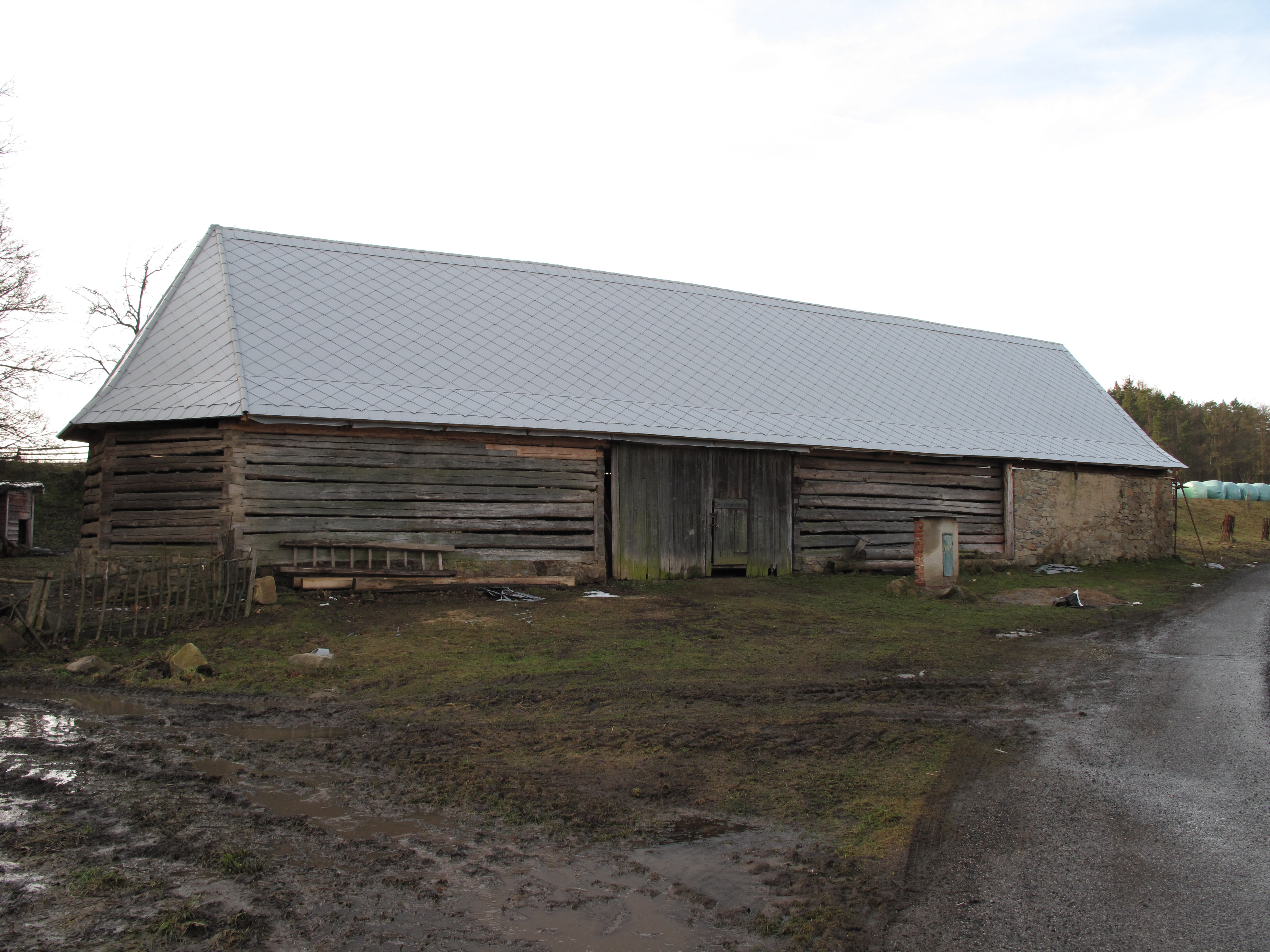 Log barn in Nové Dvory village, Příbram District, Czech Republic.